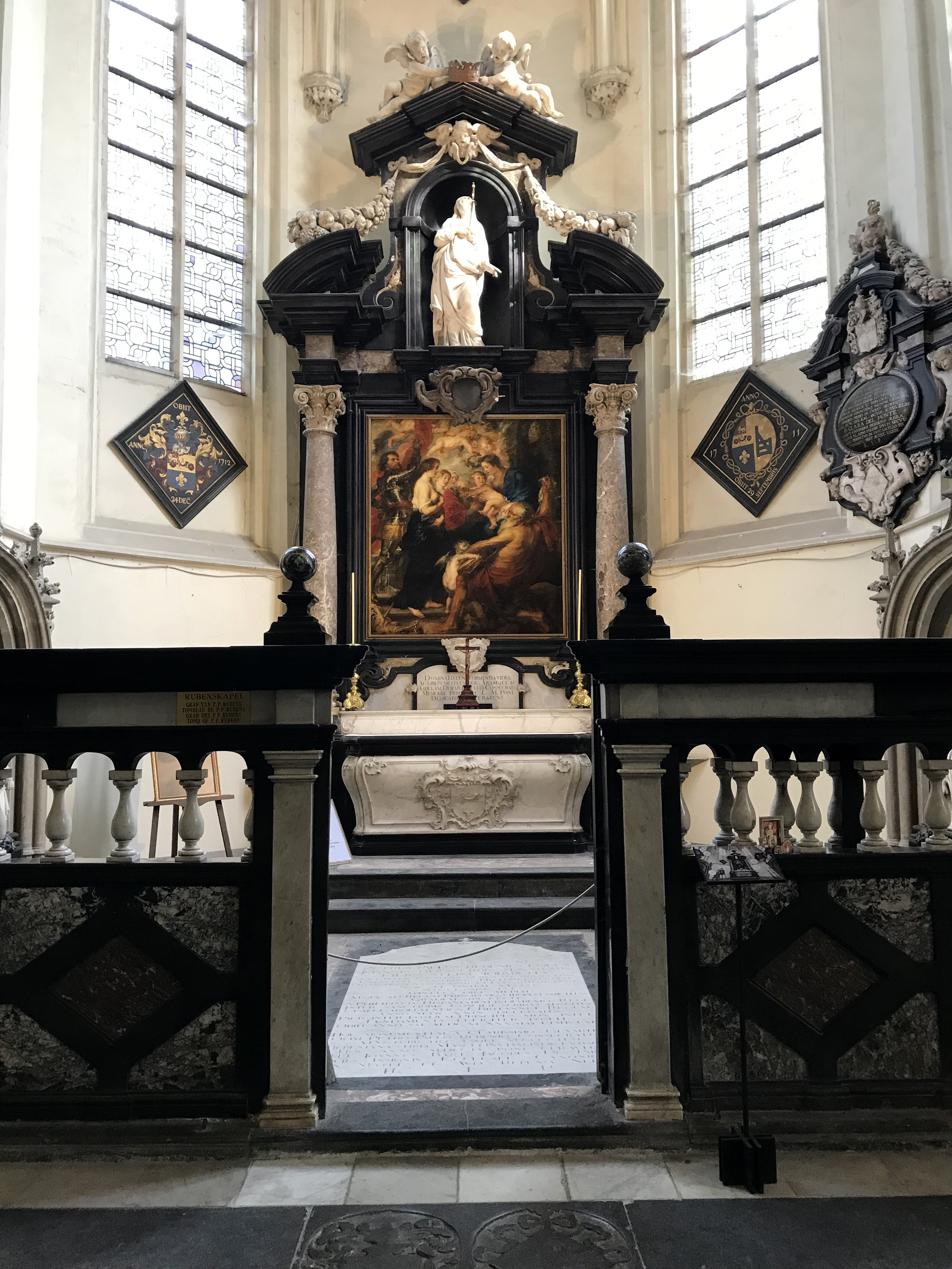 Peter Paul Rubens graveside at St. Jacob Church in Antwerpen